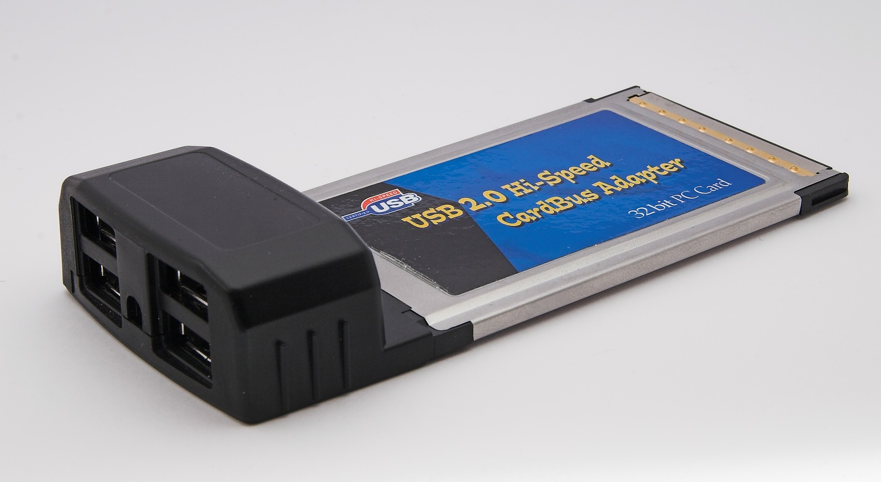 USB2.0 controller for CardBus slots.